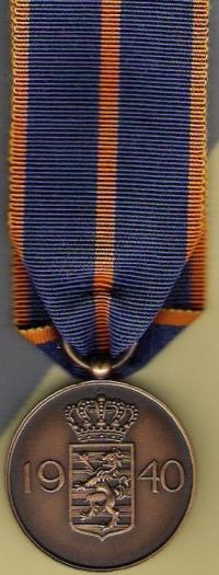 Reverse of the Luxembourg Militay Medal obv